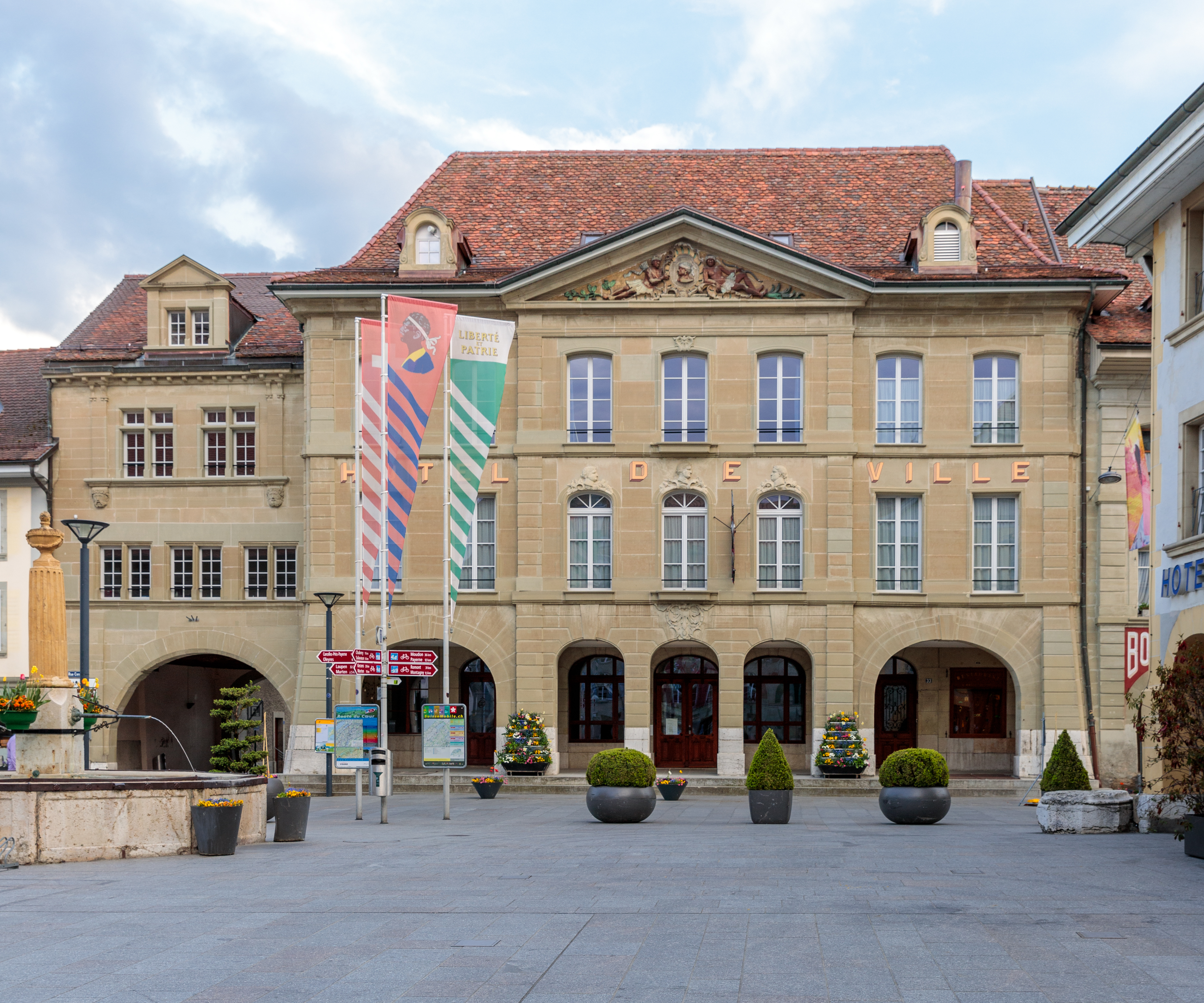 Town hall of Avenches, canton of Vaud, Switzerland.